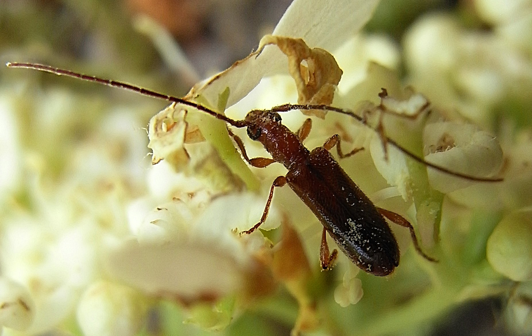 Obrium brunneum from Southern Germany